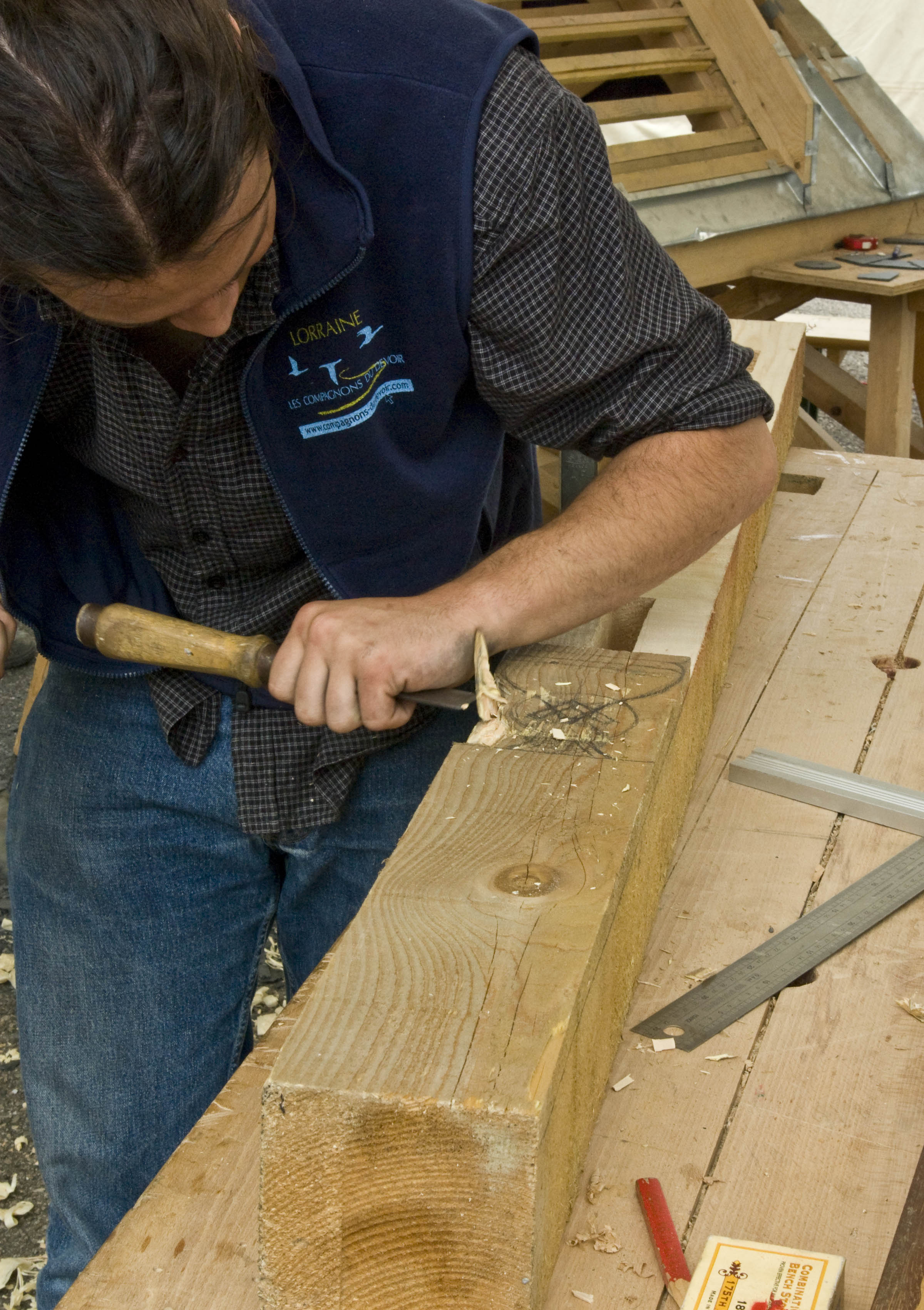 A framer